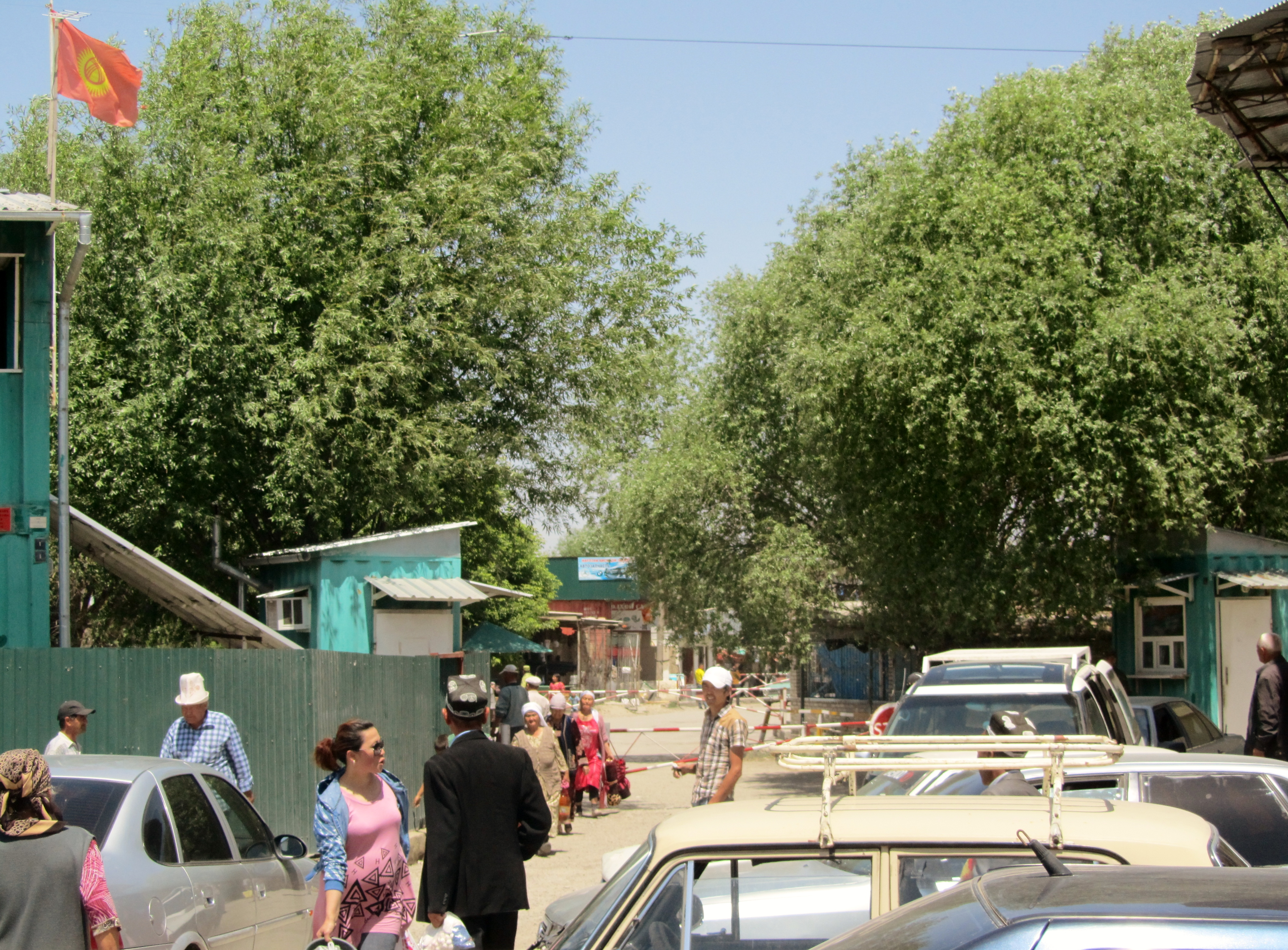 The Kyrgyz-Tajik border area at the northern end of the village of Internatsional. Leilek District, Kyrgyzstan.